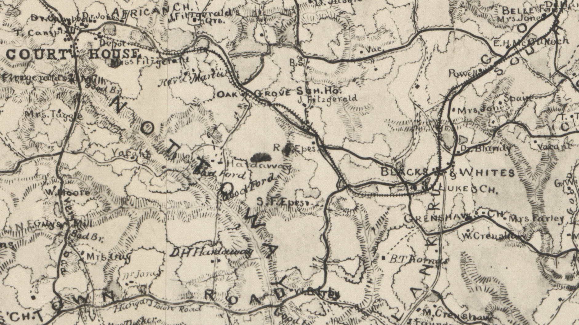 Close up of Court House and Blacks & Whites Area of Nottoway County, Virginia, taken from 1864 Map of Nottoway County available at the Library of Congress website